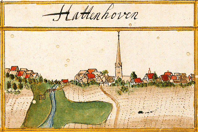 View of Hattenhofen from the forest register books created by Andreas Kieser